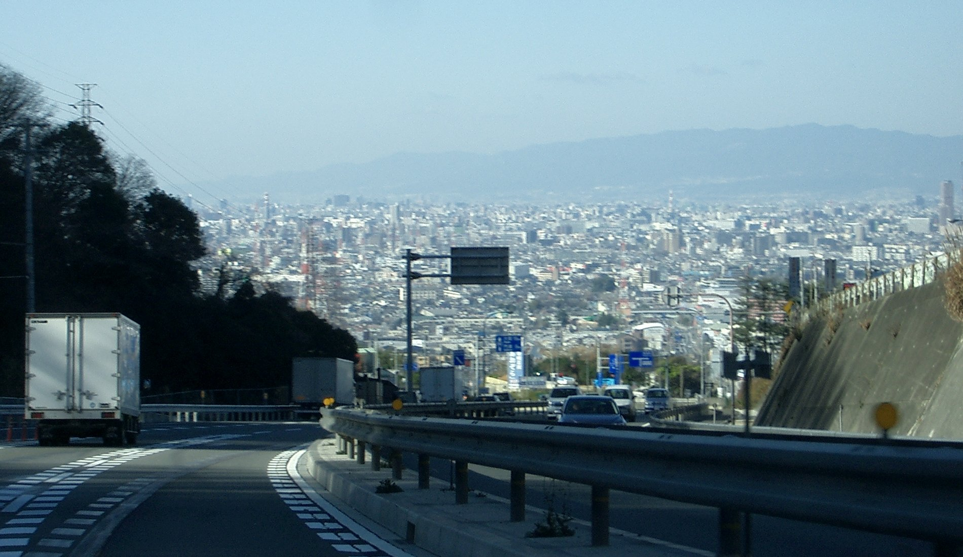 This photo presents Route 163 in Kiyotaki (ja: 清滝), Shijonawate-city, Osaka-pref, Japan.